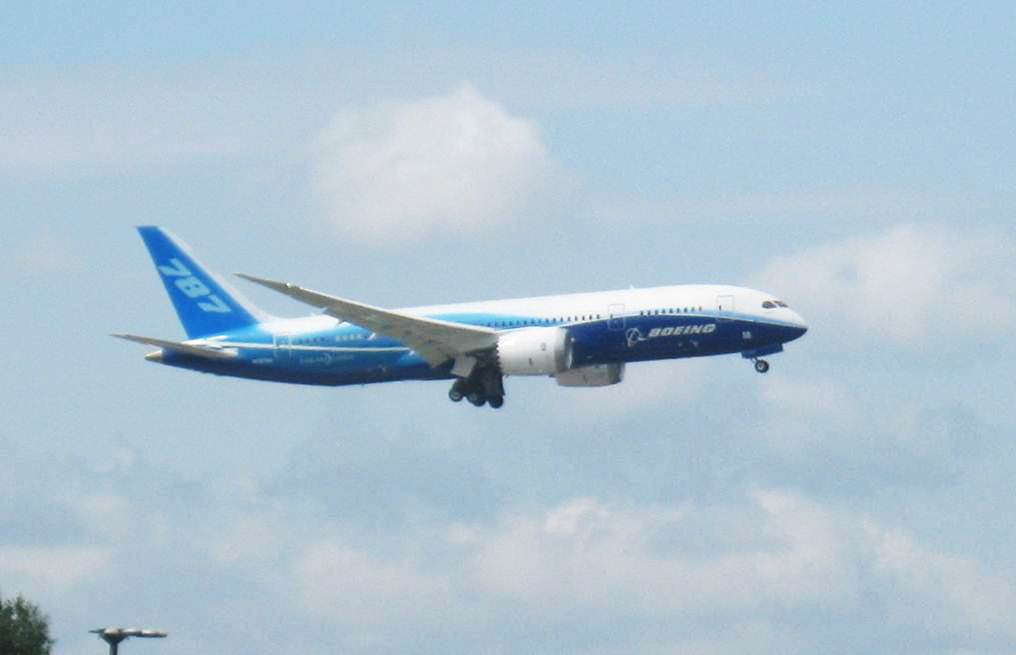 Boeing 787 Dreamliner [N787BA] landing in Warsaw (WAW/EPWA)